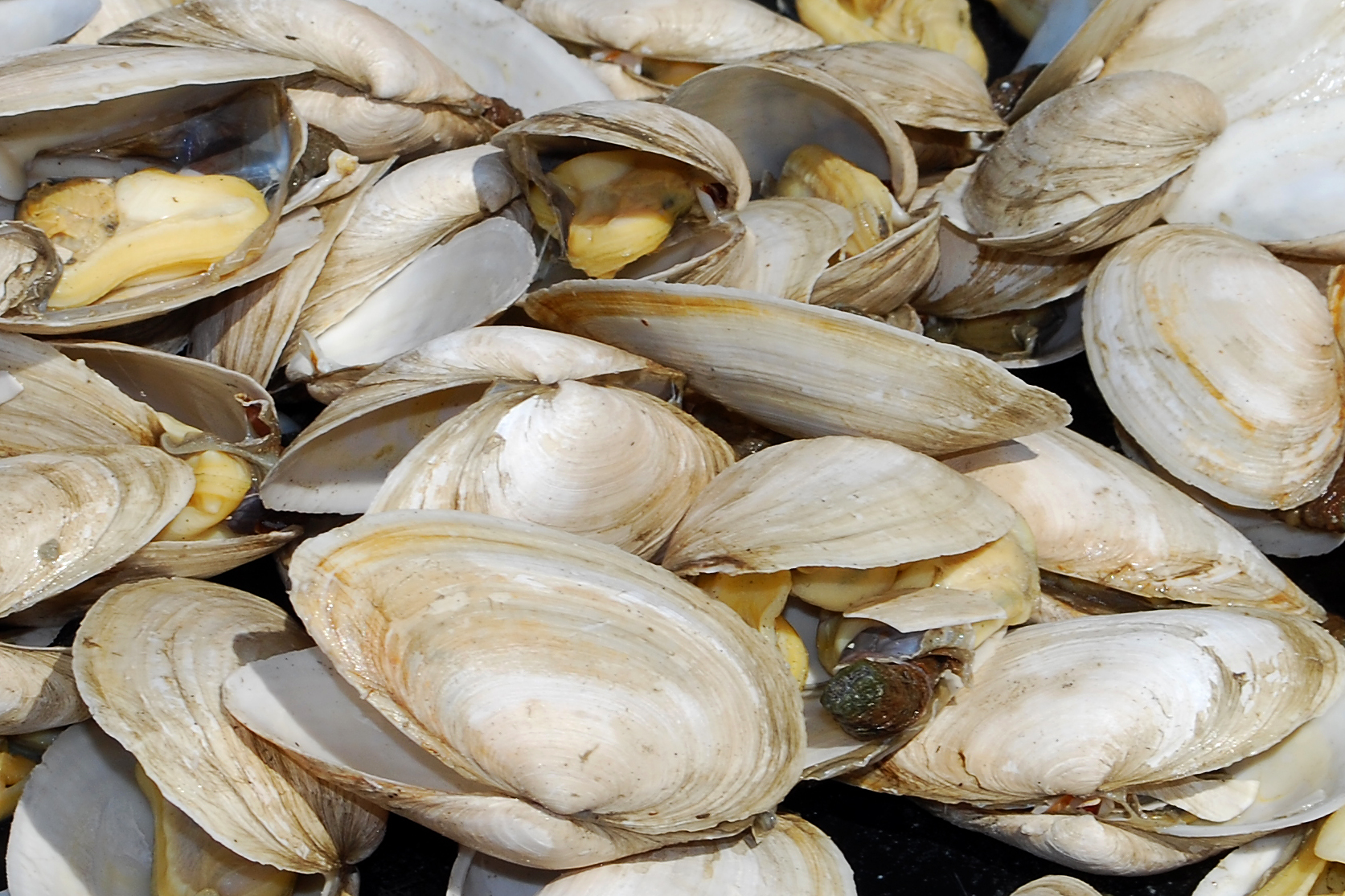 Steamed clams (steamers). Photo taken in Gloucester, Massachusetts, USA with a Nikon D40X digital camera.